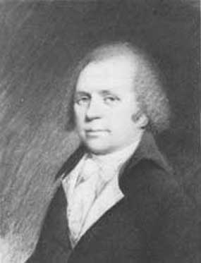 Drawing: Pastel (ca. 1795—1800) attributed to James Sharples, Sr. Held in Independence National Historical Park.